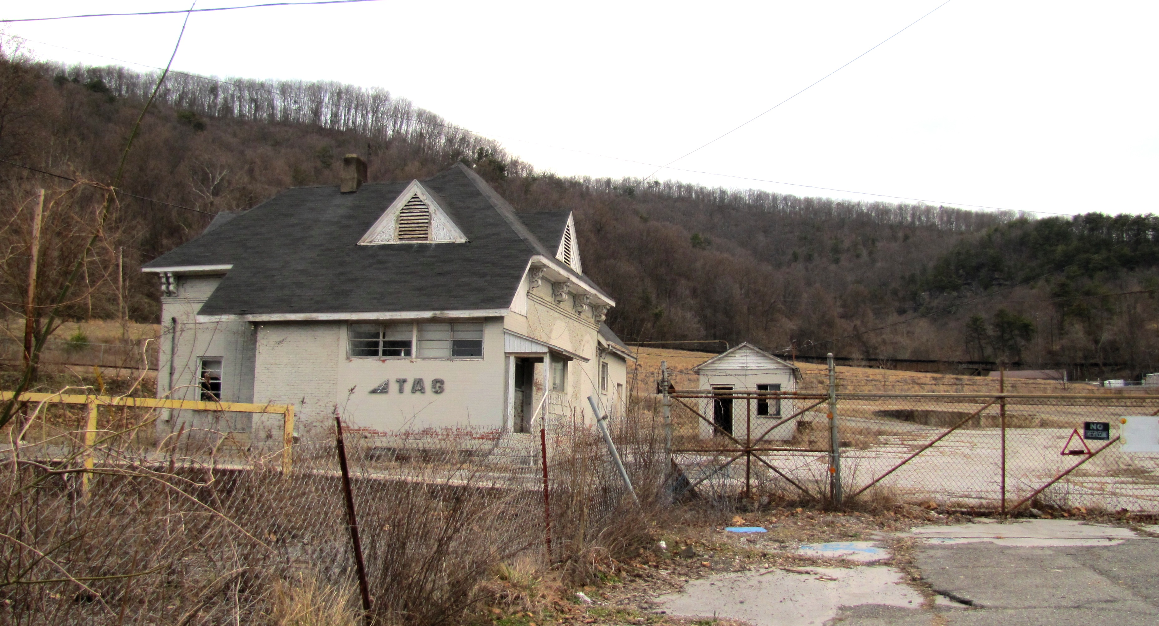 The Roane Iron Company furnace site at the end of Rockwood Avenue in Rockwood, Tennessee, USA. A large iron furnace operated here from the late 1860s into the 1920s, making use of coal and iron mined on Walden Ridge (in the background). The white building on the left appears in late 19th-century photographs of the furnace (it's on the extreme left in this example).